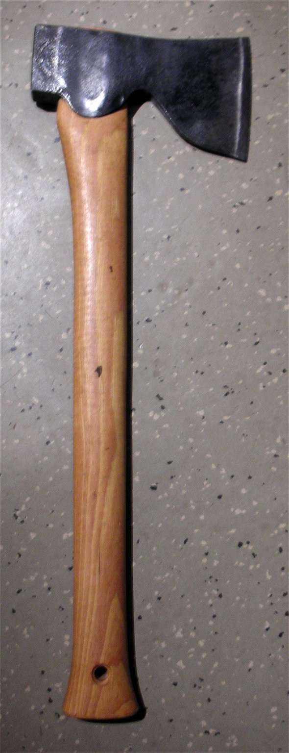 Carpenter's axe